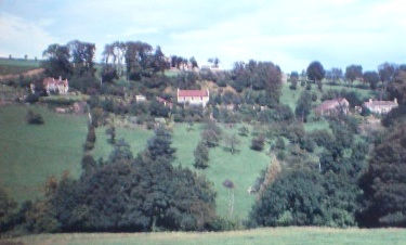 1962 photo by the submitter of the hamlet of East Dundry in the parish of Dundry, a few miles south of Bristol, England.